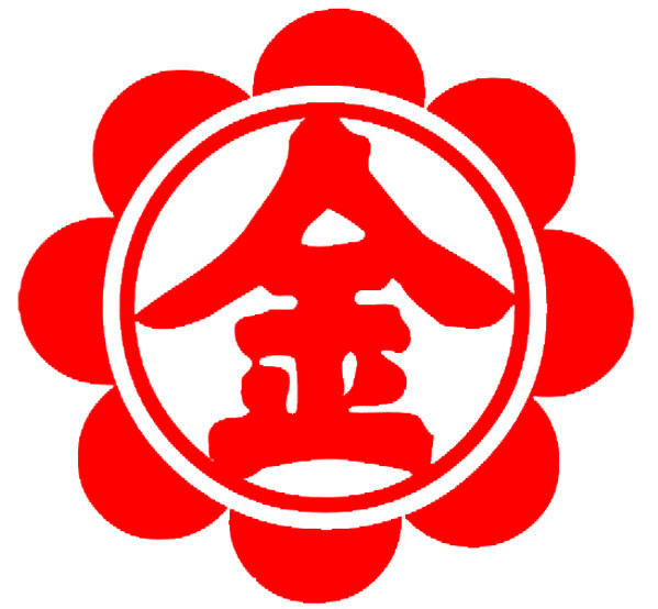 Konkokyo crest